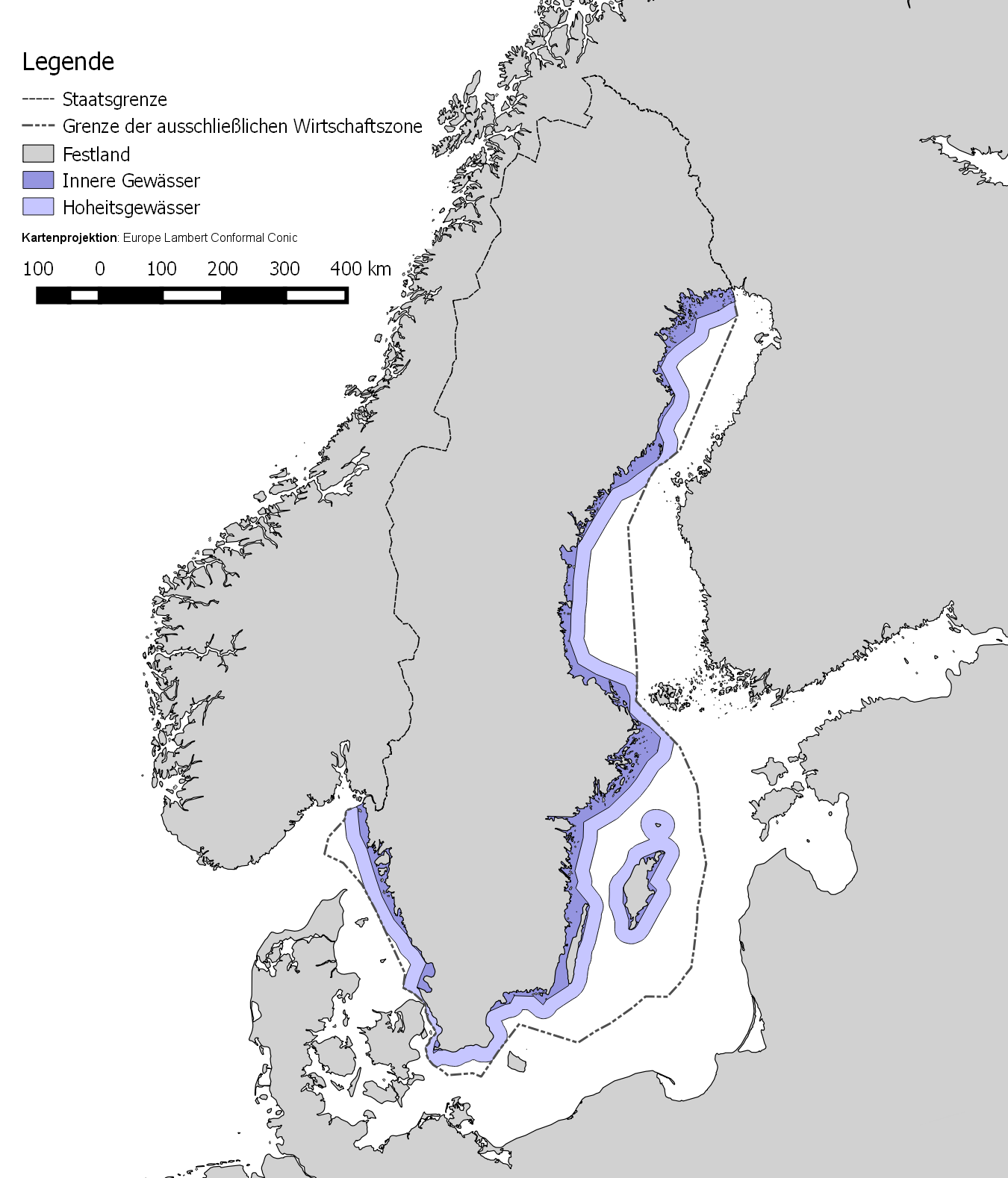 map showing the territorial waters of Sweden